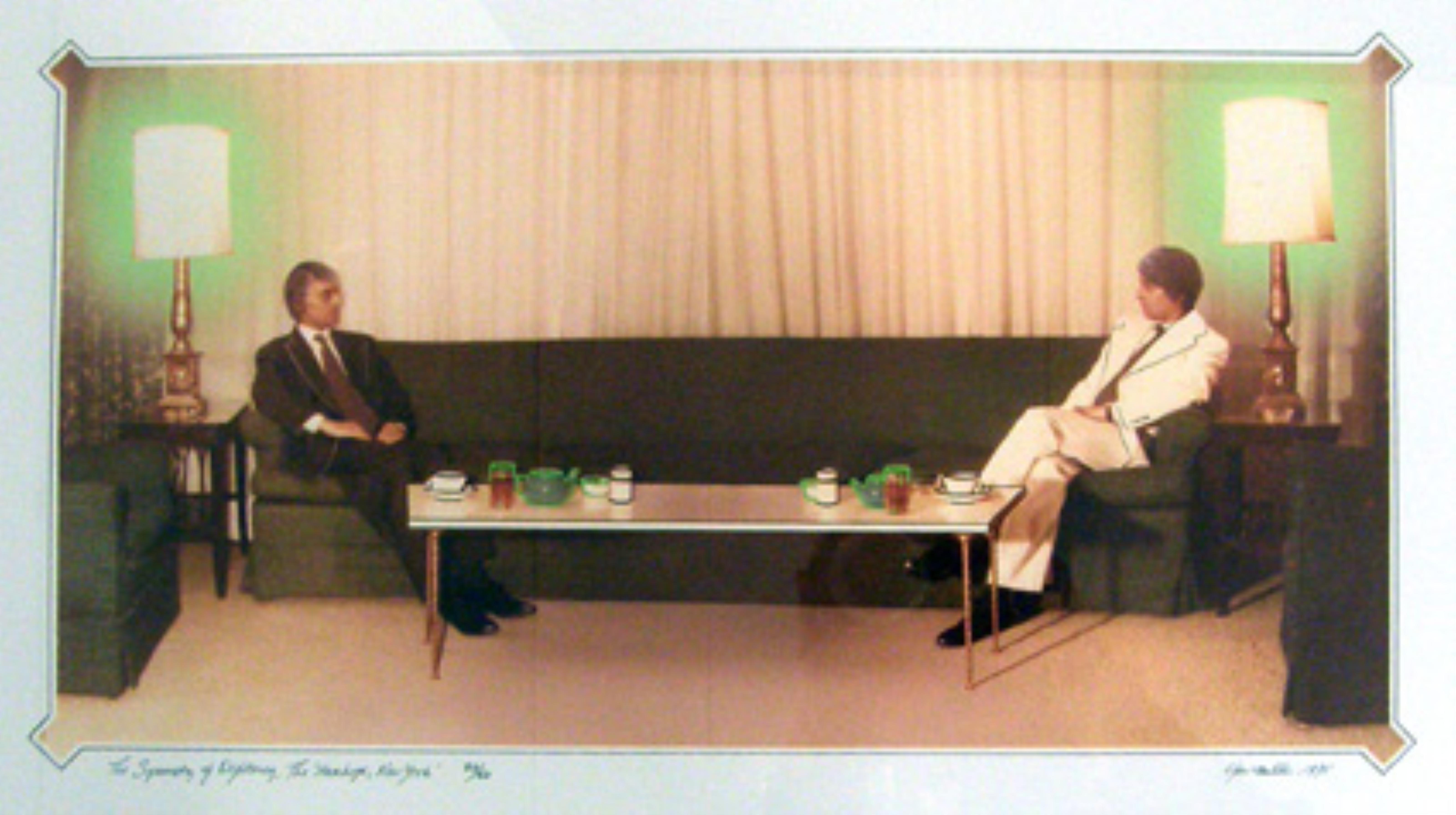 Symmetry of Diplomacy. Composite chromogenic color photograph, with silkscreen printings and air brushing, from the portfolio Artists & Photographs, representing twice van Elk posed in a situation evocative of those which commemorate important diplomatic meetings. Groninger Museum identifier :1983.0211.E .